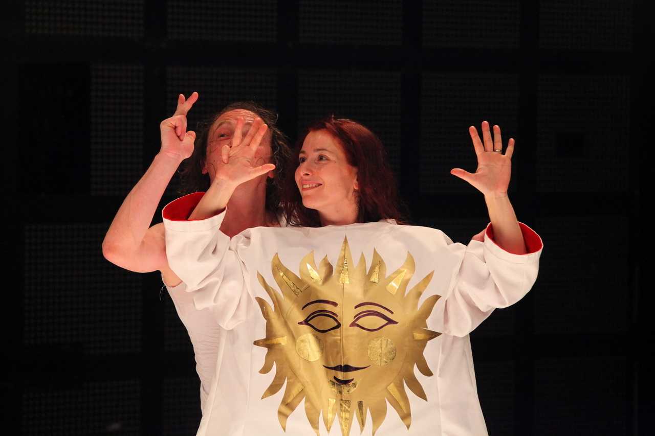 "The Day We Met Each Other" by Božidar Knežević, directed by Predrag Štrbac; Ballet of the Serbian National Theatre, 2014/15; Sonja Damjanović, Milan Lazić Srpski (latinica): „Dan kada smo se sreli” Božidara Kneževića u režiji Predraga Štrpca, Balet Srpskog narodnog pozorišta, 2014/15; Sonja Damjanović, Milan Lazić Српски (ћирилица): „Дан када смо се срели“ Божидара Кнежевића у режији Предрага Штрпца, Балет Српског народног позоришта, 2014/15; Соња Дамјановић, Милан Лазић